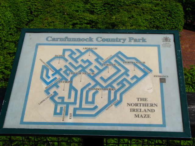 The 'Northern Ireland Maze', Carnfunnock Country Park [detail] Sign and map of 797991.